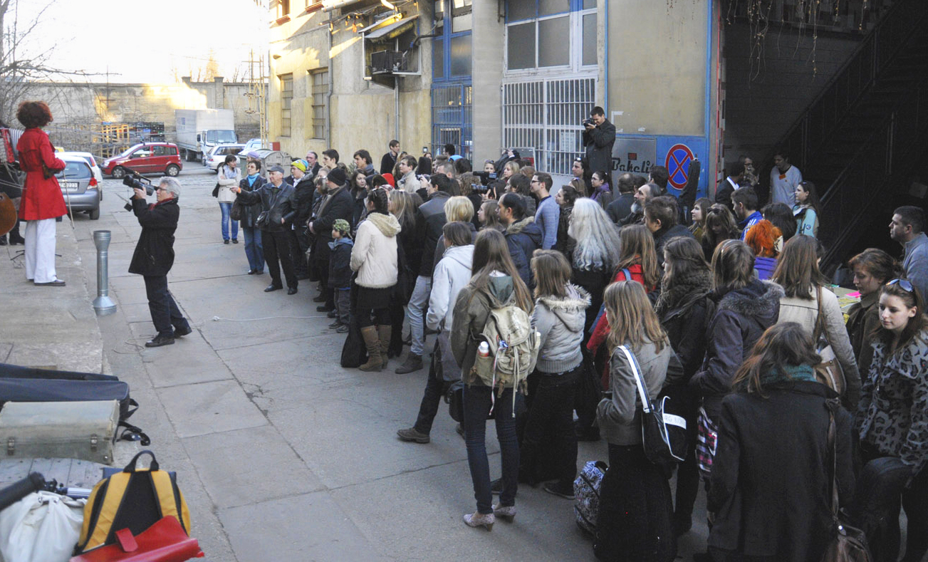 Bakelit Multi Art Center